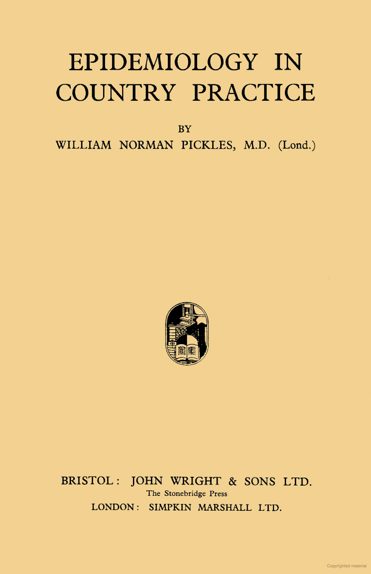 Epidemiology in Country Practice. Too simple for copyright protection